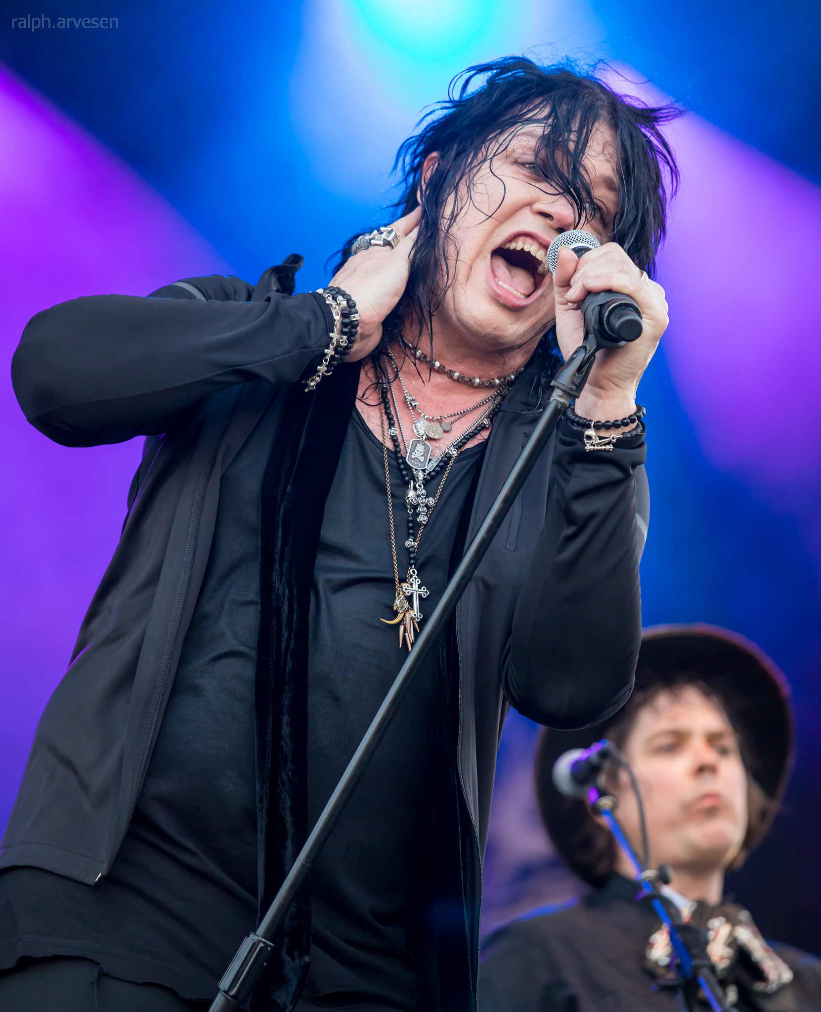 Tom Keifer performing at the Fiesta Oyster Bake at St. Mary's University in San Antonio, Texas on April 21, 2018.